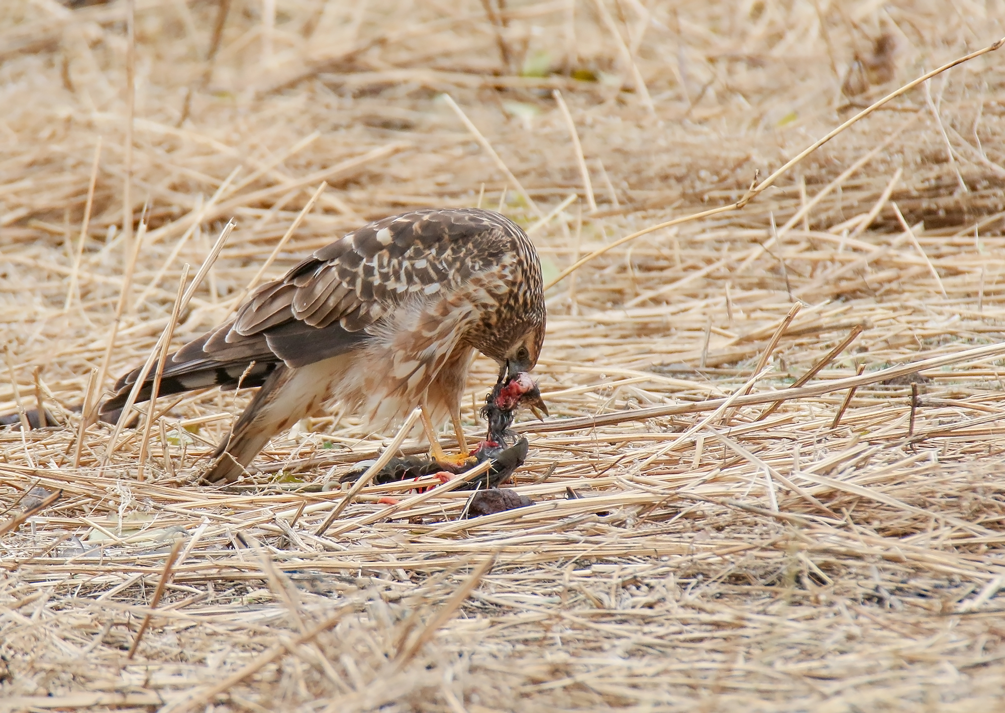 Hen Harrier (Circus cyaneus) captured at Borit, Gojal, Gilgit-Baltistan, Pakistan with Canon EOS 7D Mark II